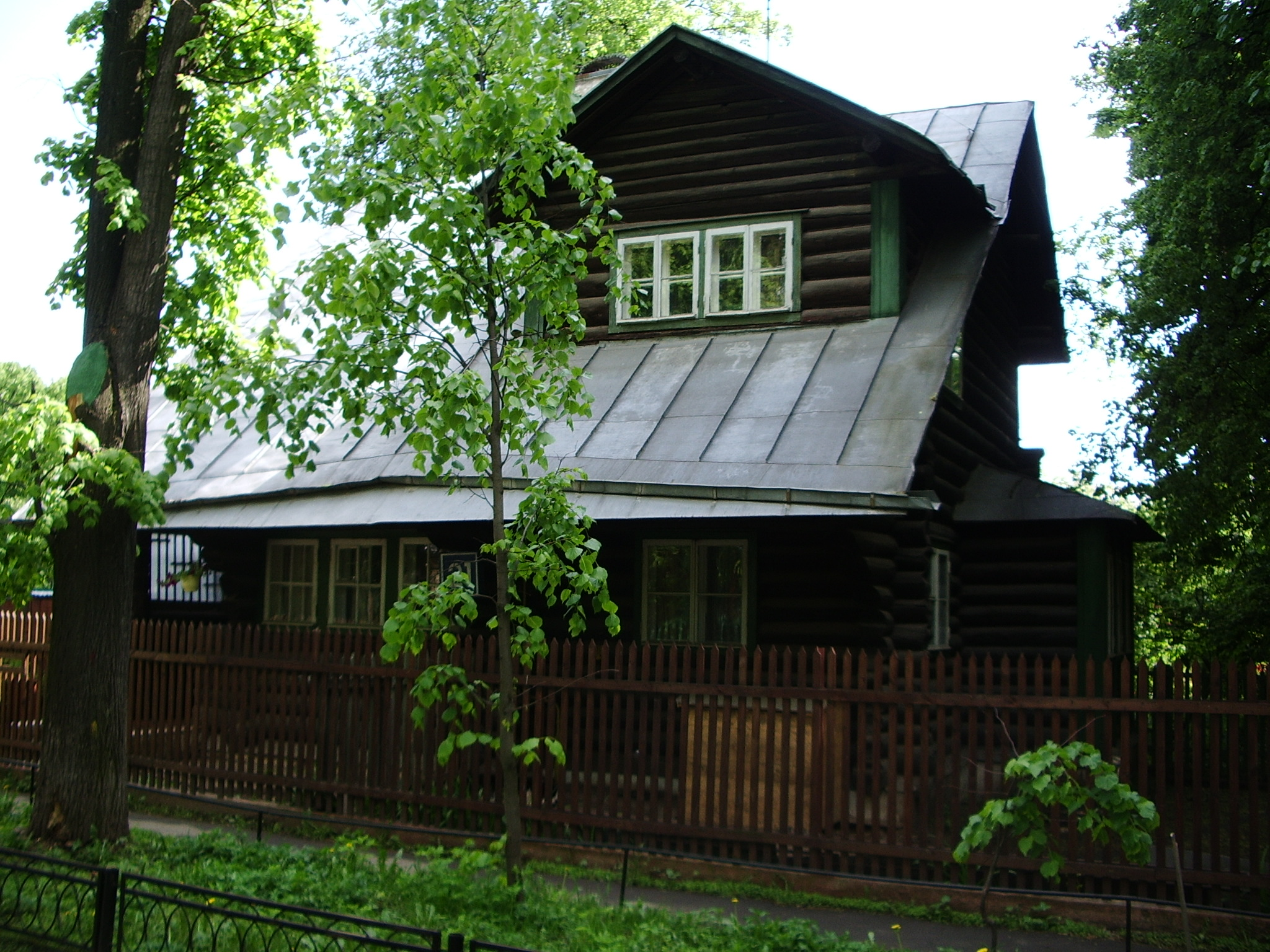 Surikova street 21. Sokol settlement in Moscow.